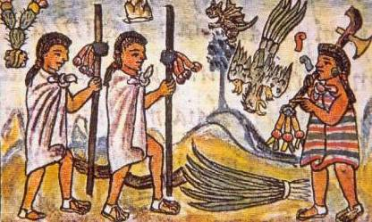 Illustration from the Florentine Codex.